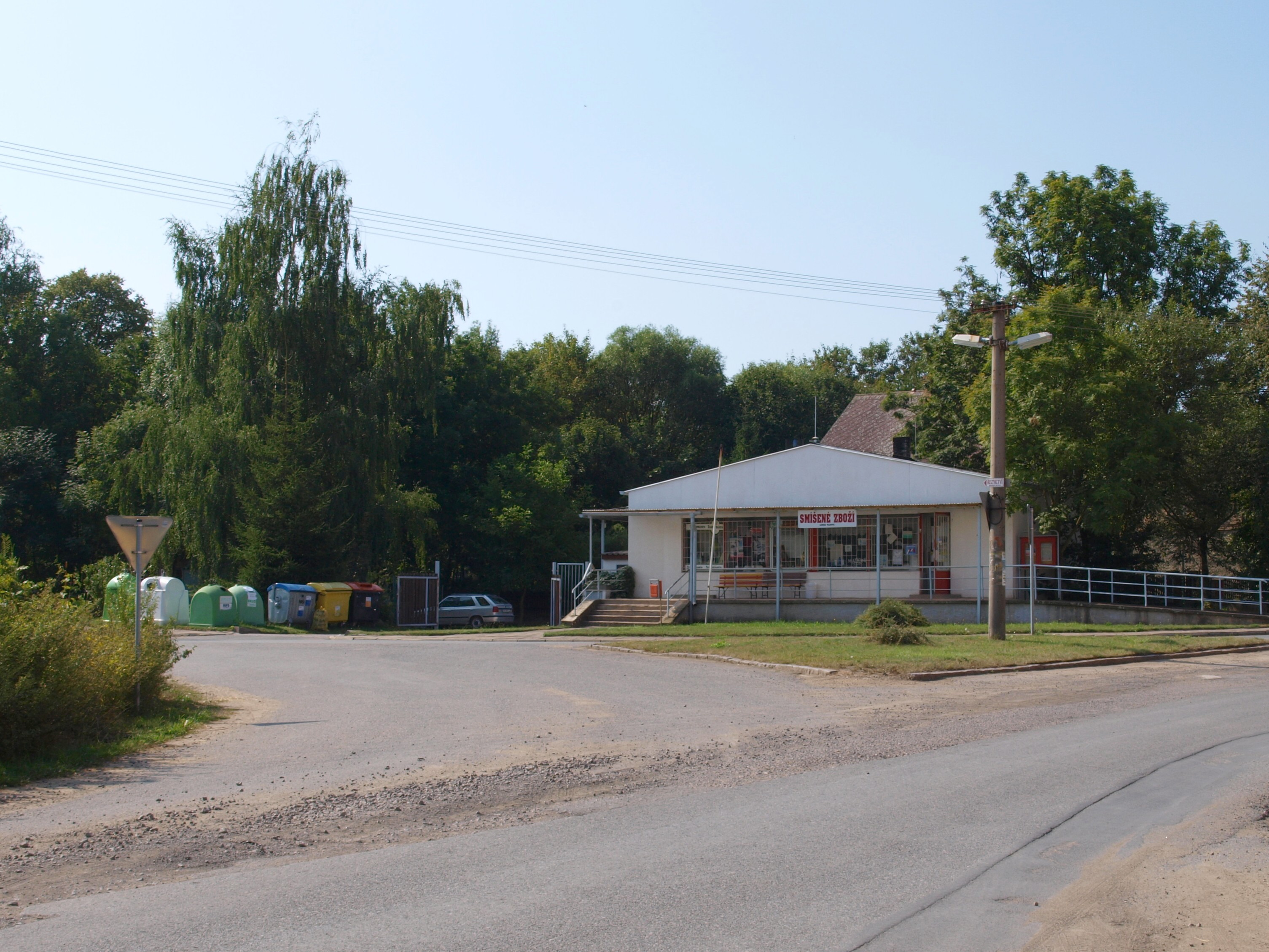 Village square, Podlešín, Kladno District, Czech Republic